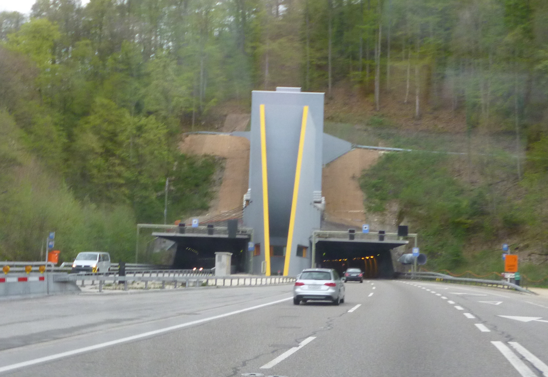 Belchentunnel, Switzerland, northern entry